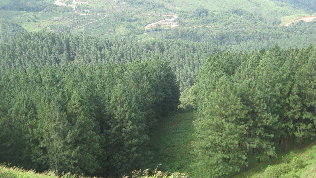 Pine tree forest